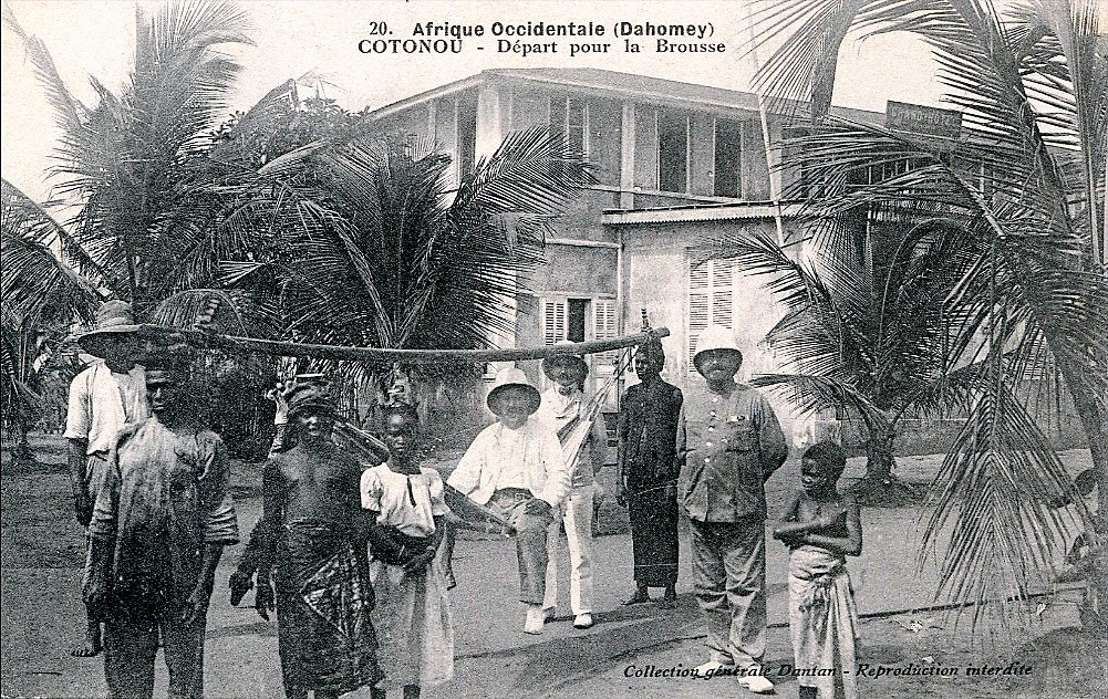 Carte postale - 20. Afrique Occidentale (Dahomey) - Cotonou - Départ pour la Brousse